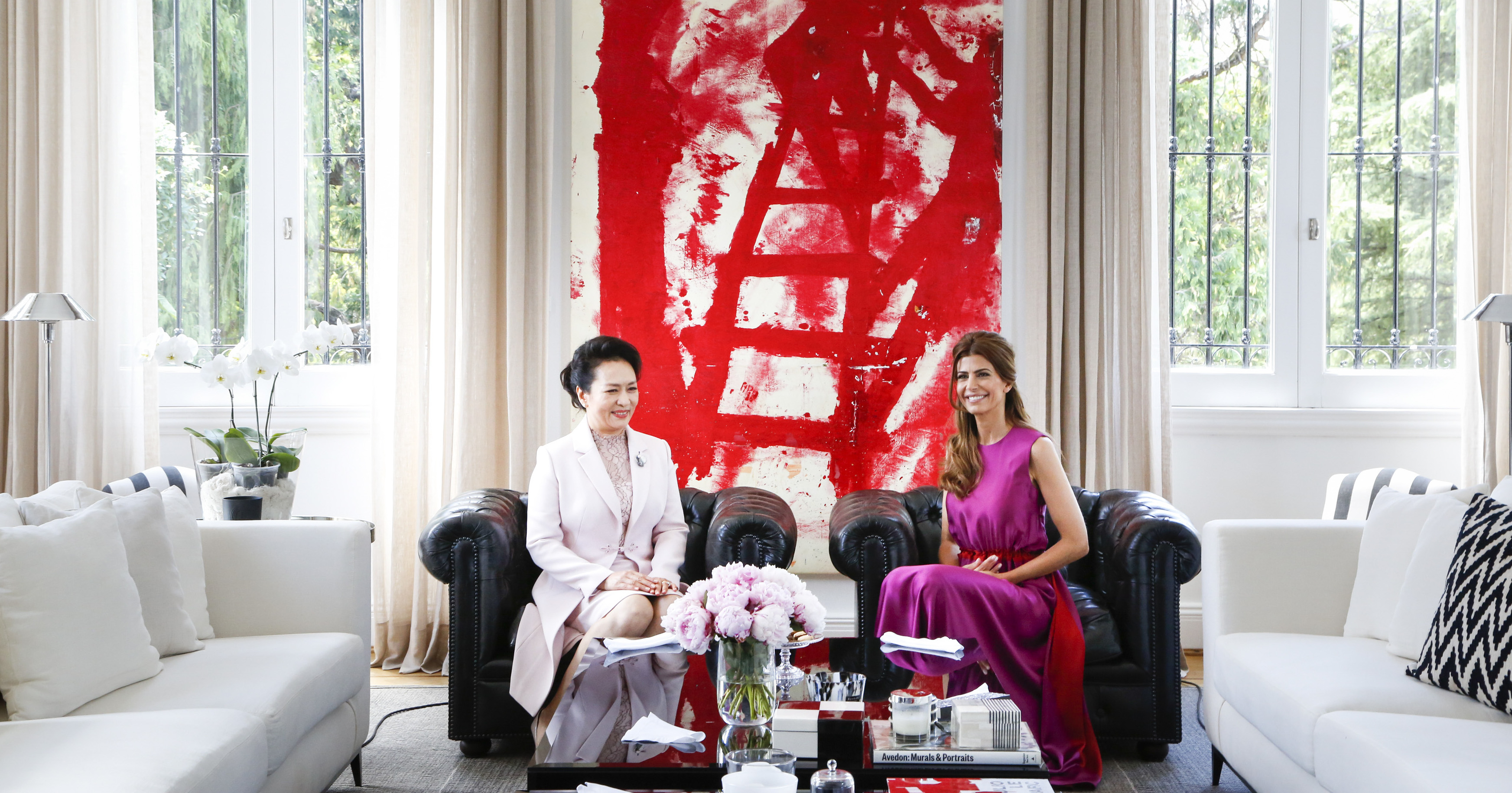 The First Lady of Argentina alongside the First Lady of Mainland China in the Quinta de Olivos Presidential Residence, Buenos Aires, Argentina. December 2018.